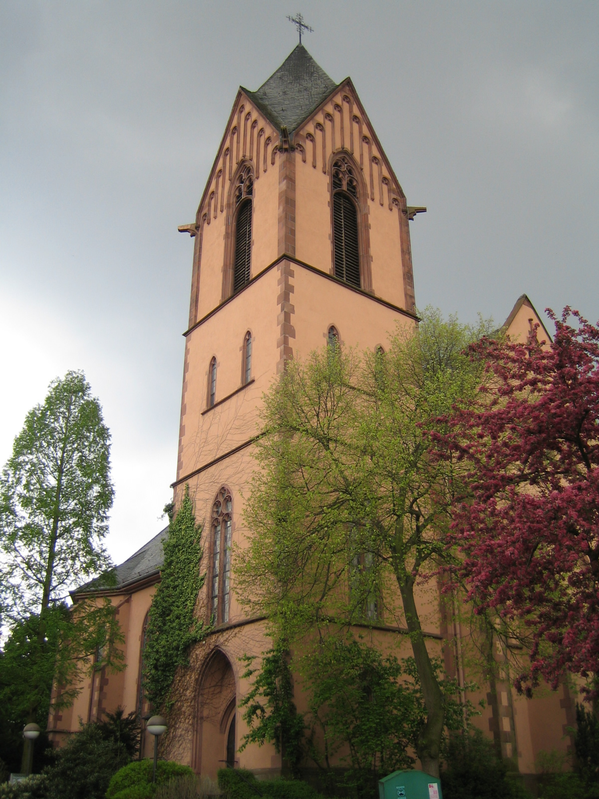 "Herz Jesu Kirche", a catholic church built 1891/93 in Frankfurt-Oberrad, Germany.